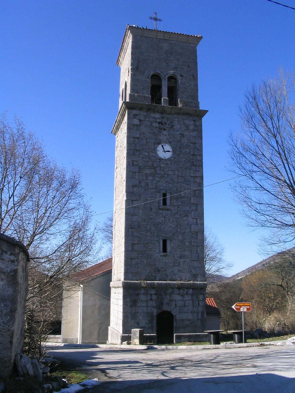 Church tower in Vodice, Istria, Croatia